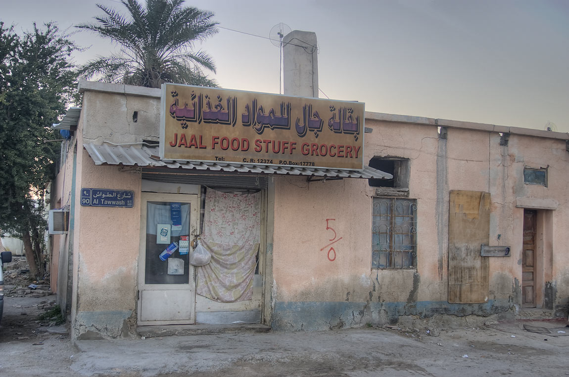 Jaal Food Stuff Grocery on Al Tawwash Street in Al Wakrah, Qatar.